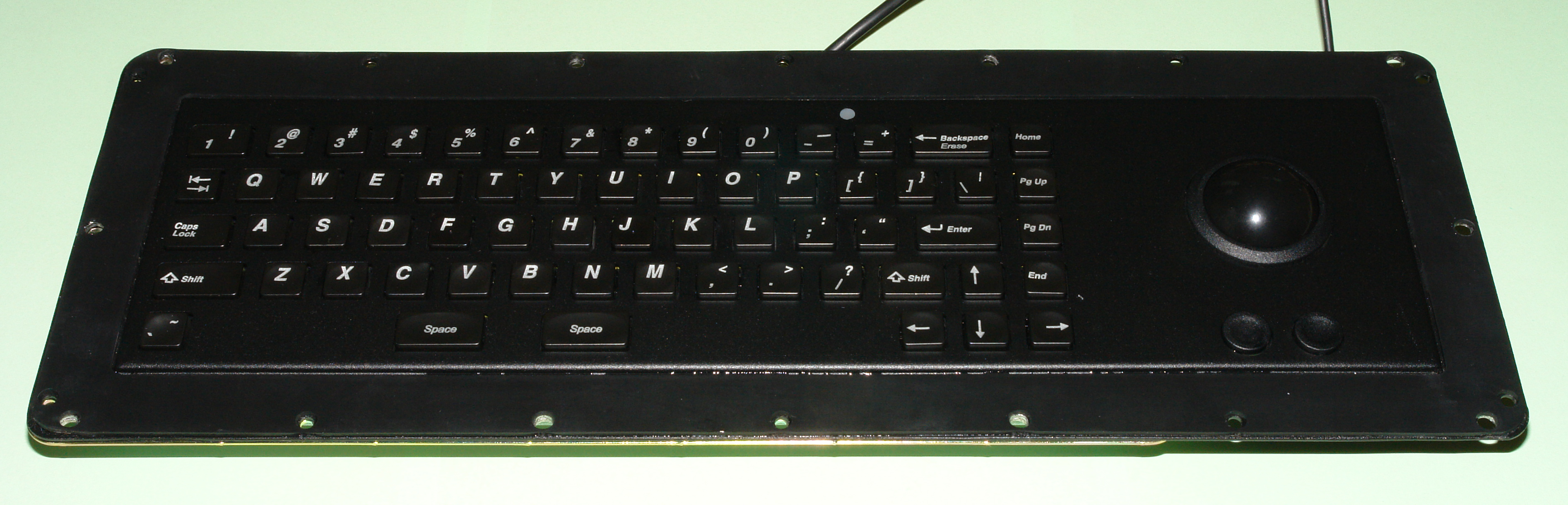 Industrial metal keyboard with integrated trackball